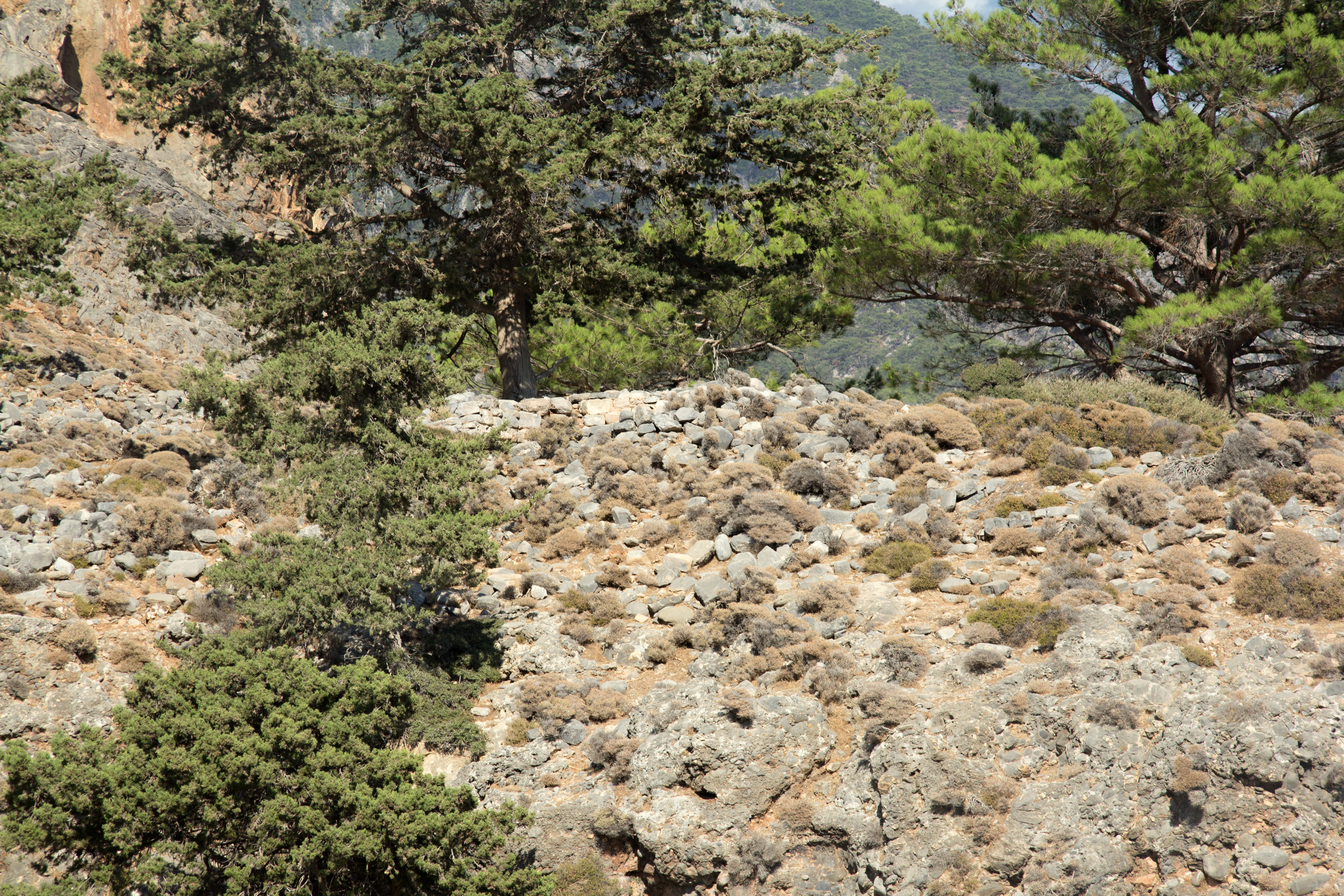 Tarra, the remains of Hellenistic town at Agia Roumeli, Crete.